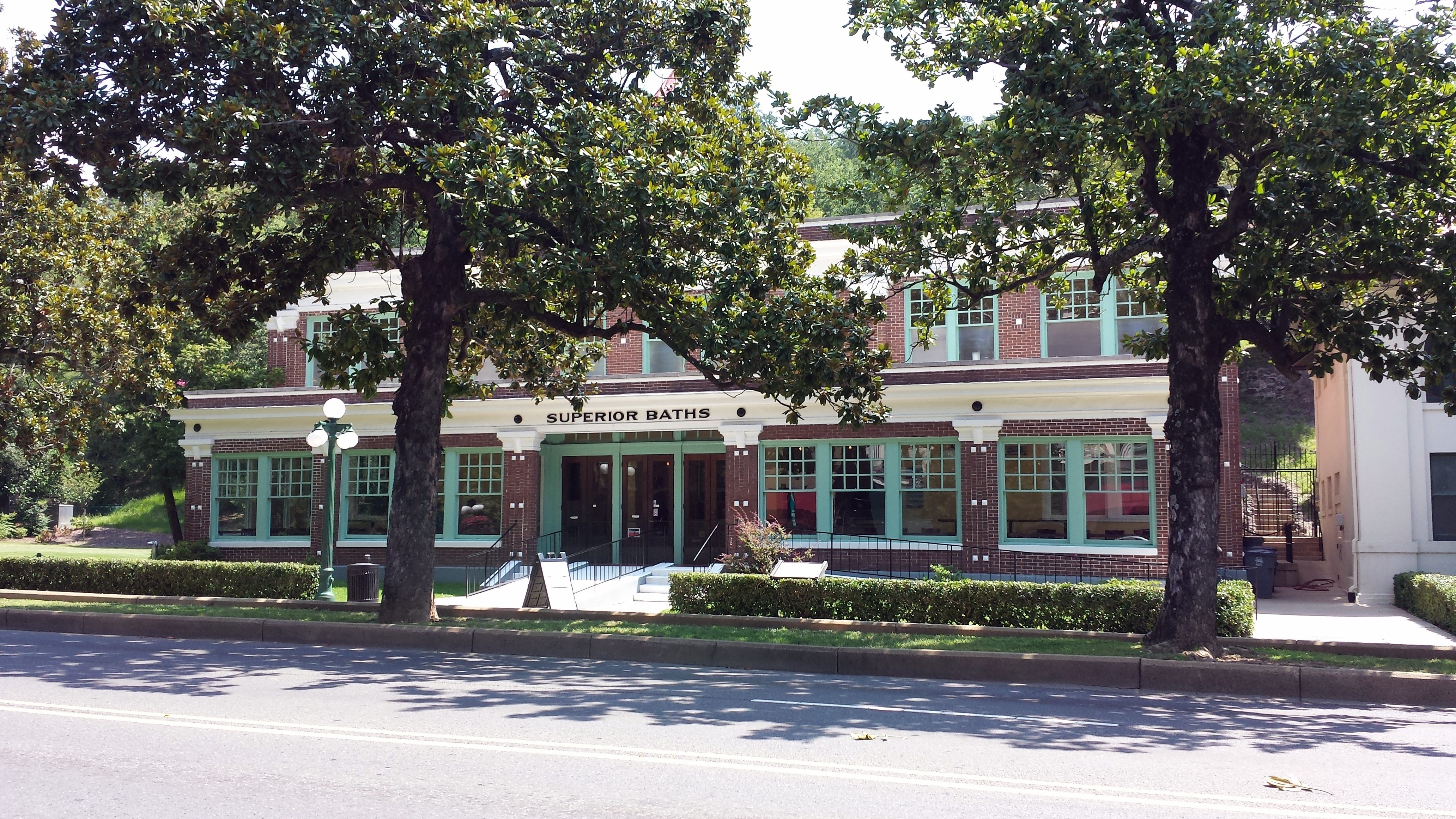 Superior Bathhouse Brewery and Spirits in Hot Springs, AR